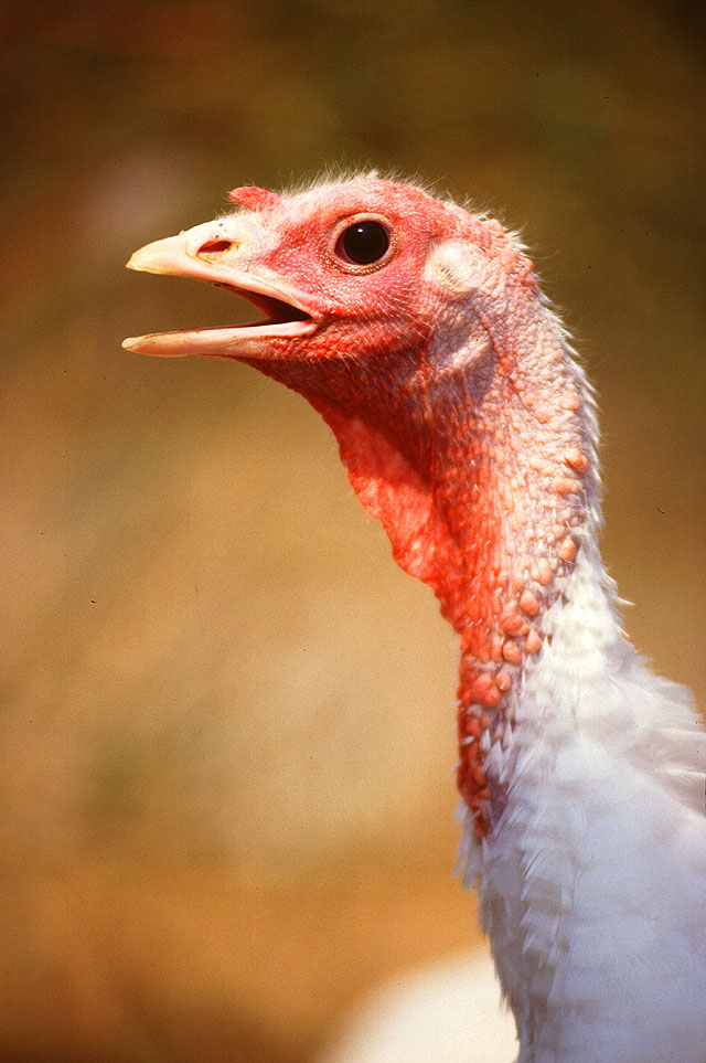 Large white female turkey.